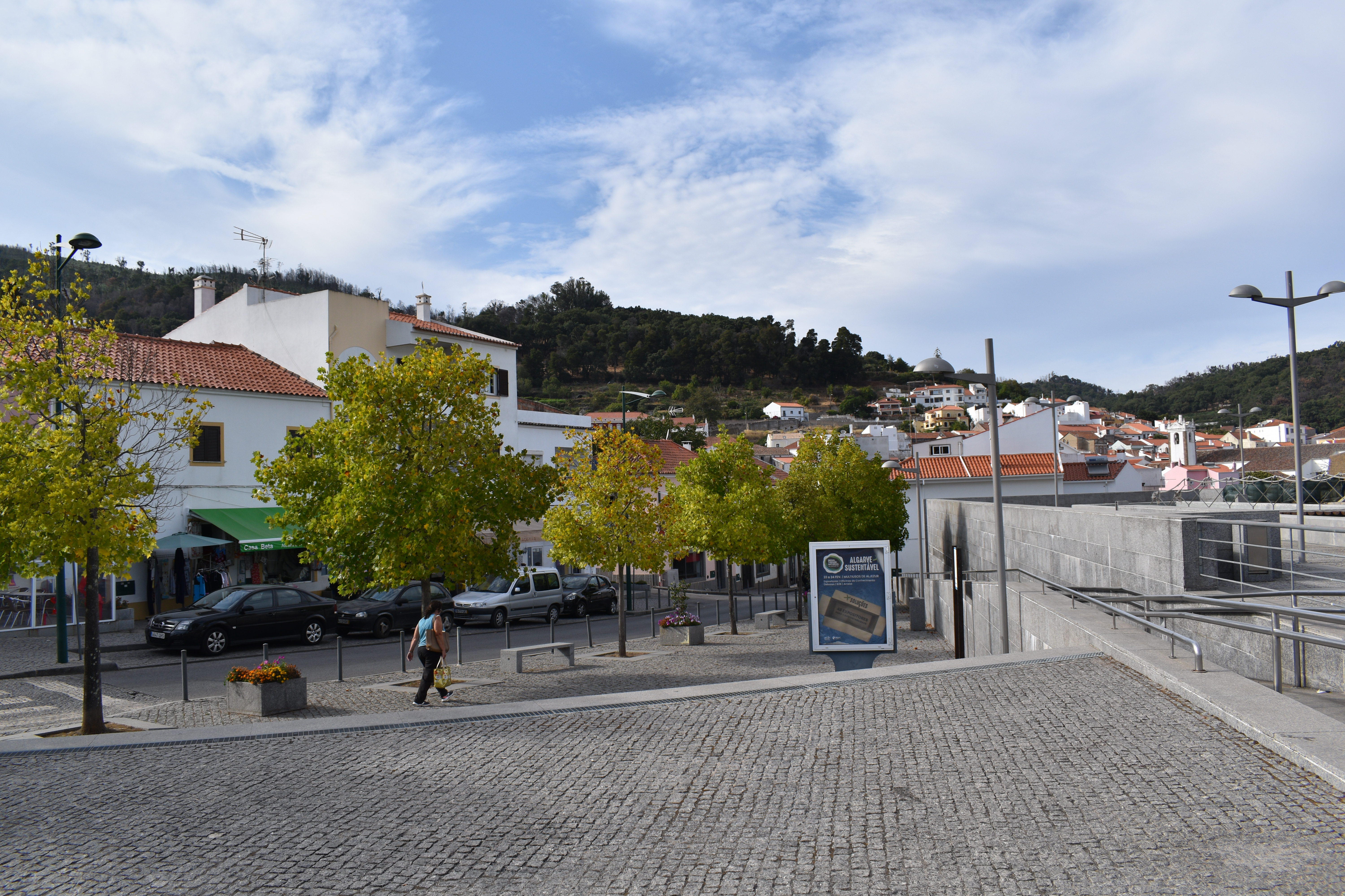 Rua Engenheiro Duarte Pacheco (Engenheiro Duarte Pacheco Street) in the town of Monchique, in Algarve, Southern Portugal.